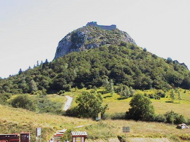 Château de Montségur - seen from the bottom of the hill